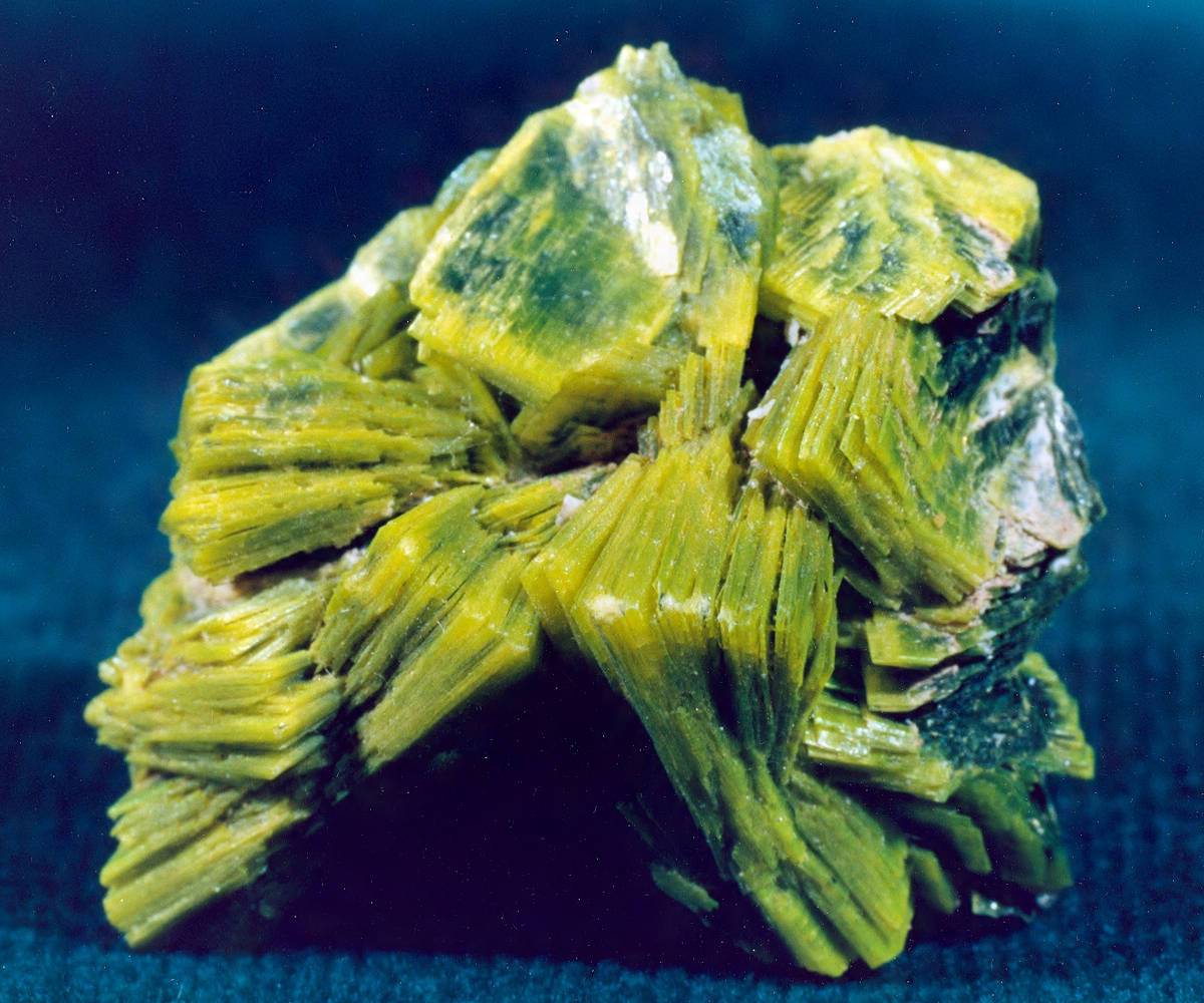 Autunite, Washington. Bureau of Mines, Mineral Specimens C\01621.